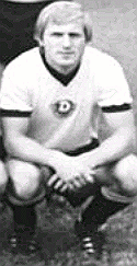 Title: Mannschaftsfoto SG Dynamo Dresden Factual corrections and alternative descriptions are encouraged separately from the original description. Additionally errors can be reported at this page to inform the Bundesarchiv. Original historic description: Dieter Riedel 1976.